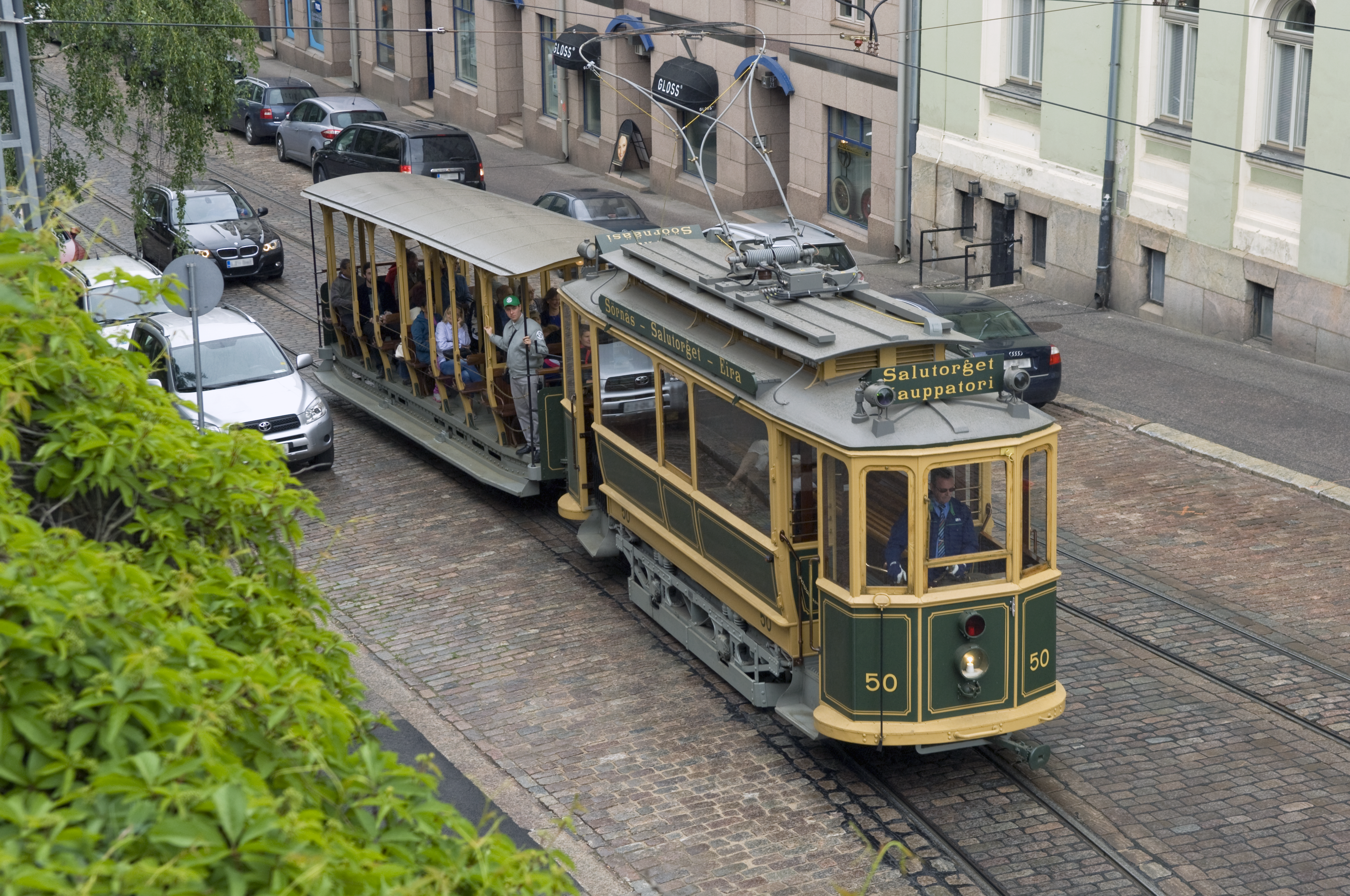 A vintage tram on Snellmaninkatu street in Kruununhaka, Helsinki, Finland.